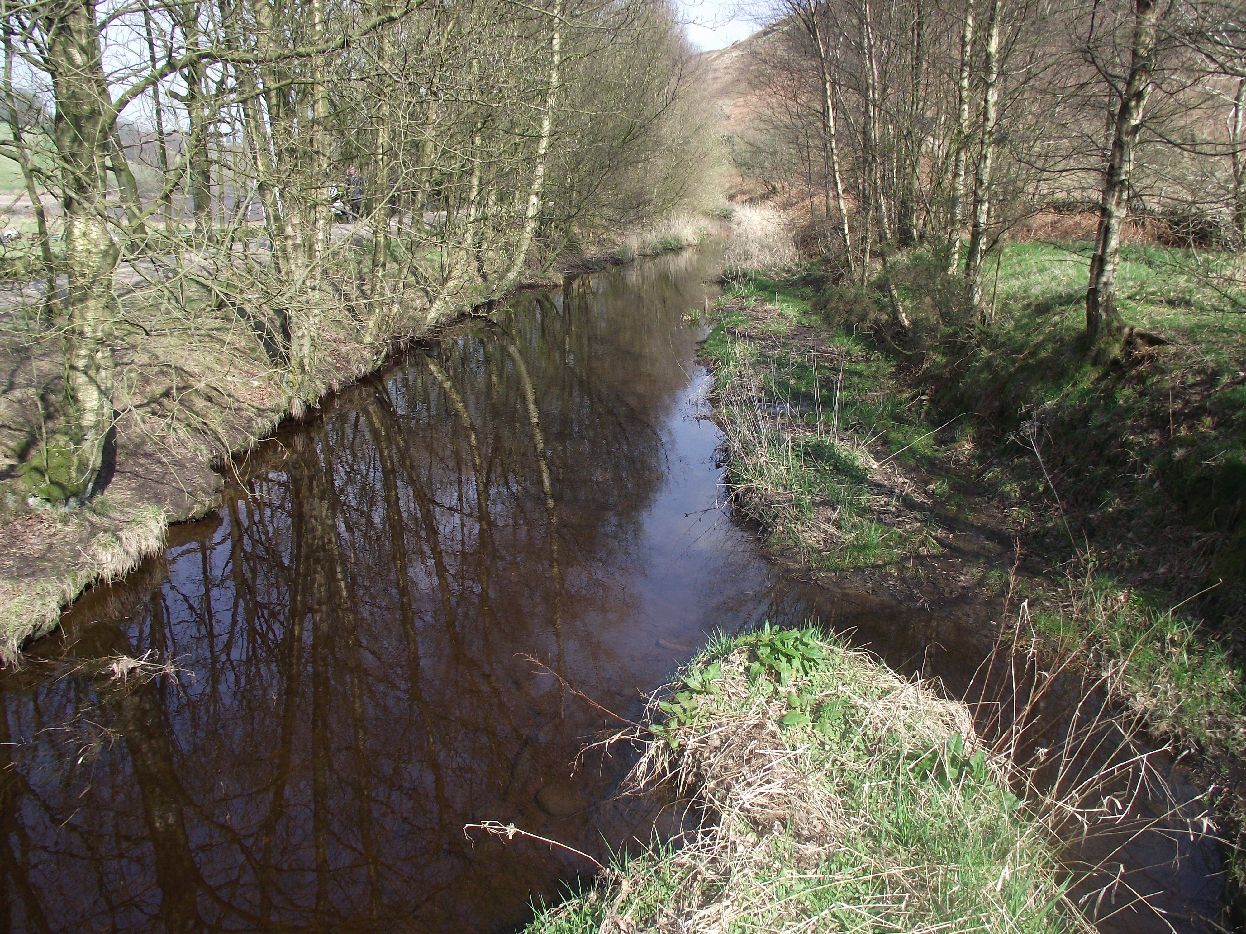 The Goit near White Coppice